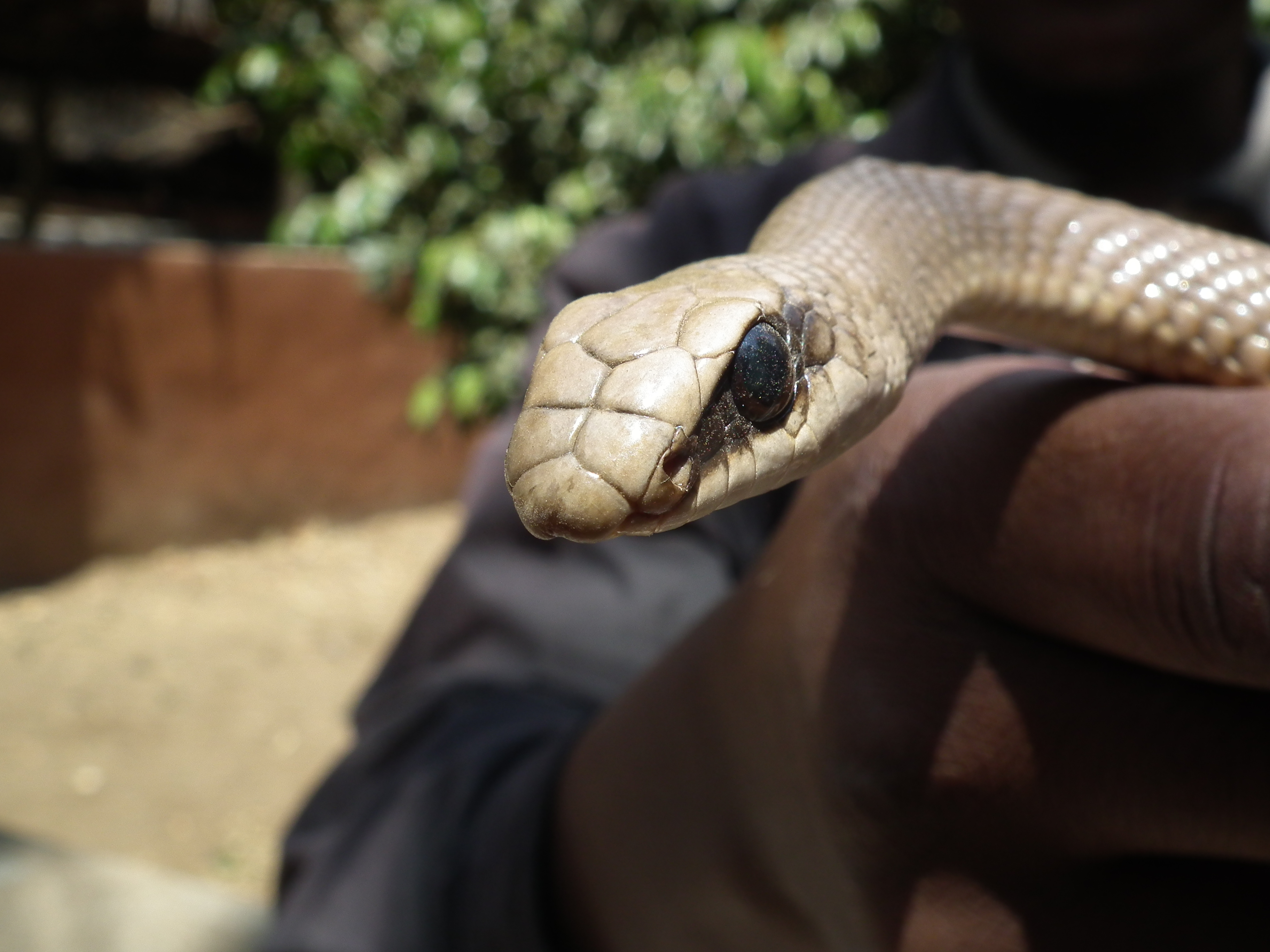 Rufous Beaked Snake, Rhamphiophis rostratus